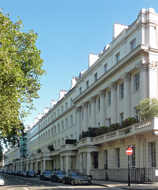 24–48 Eaton Square